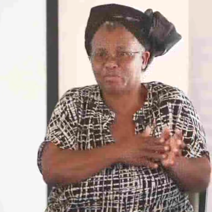 South African Civil Society Information Service screenshot of Sizani Ngubane in 2014